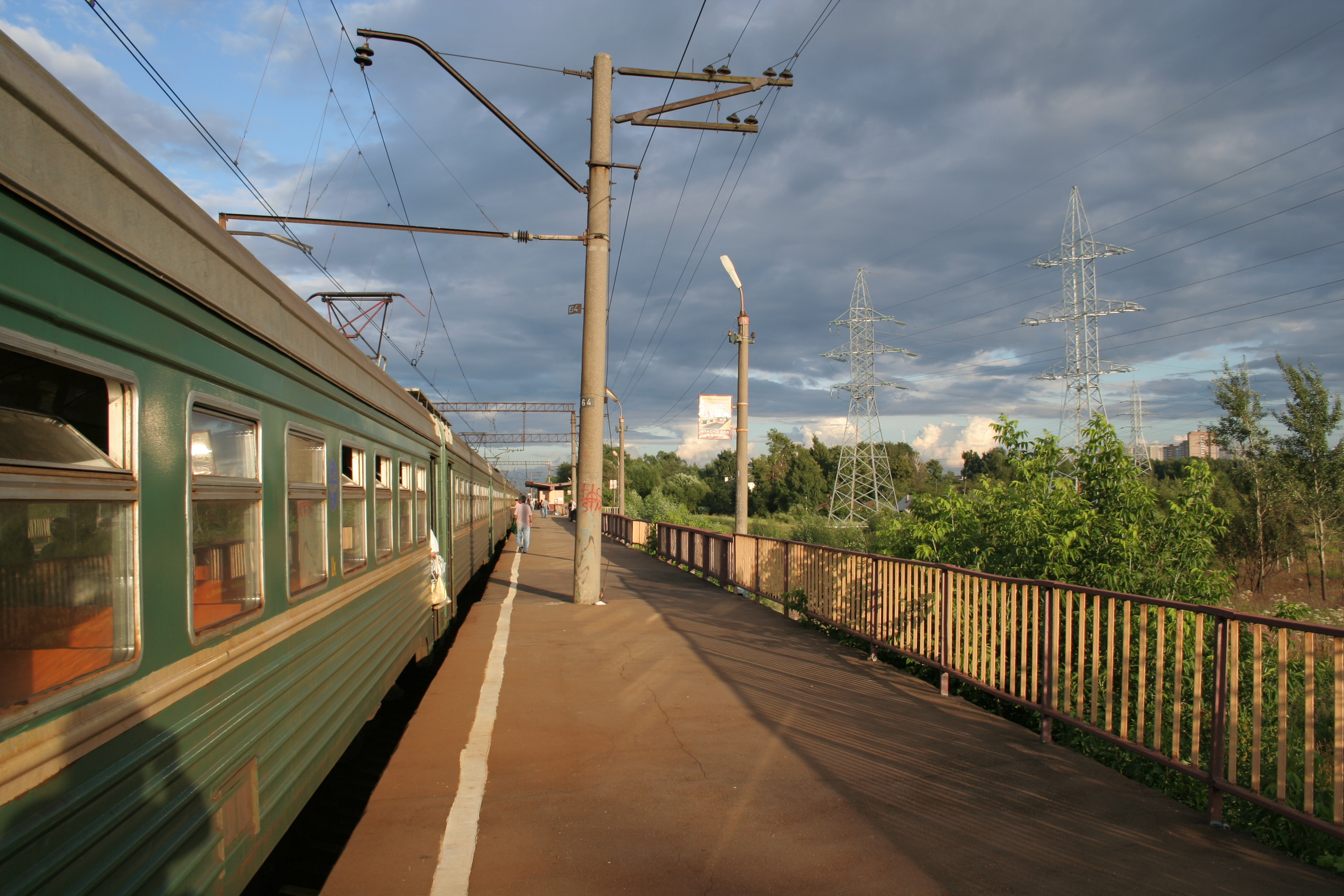 Train station Planernaya in Moscow